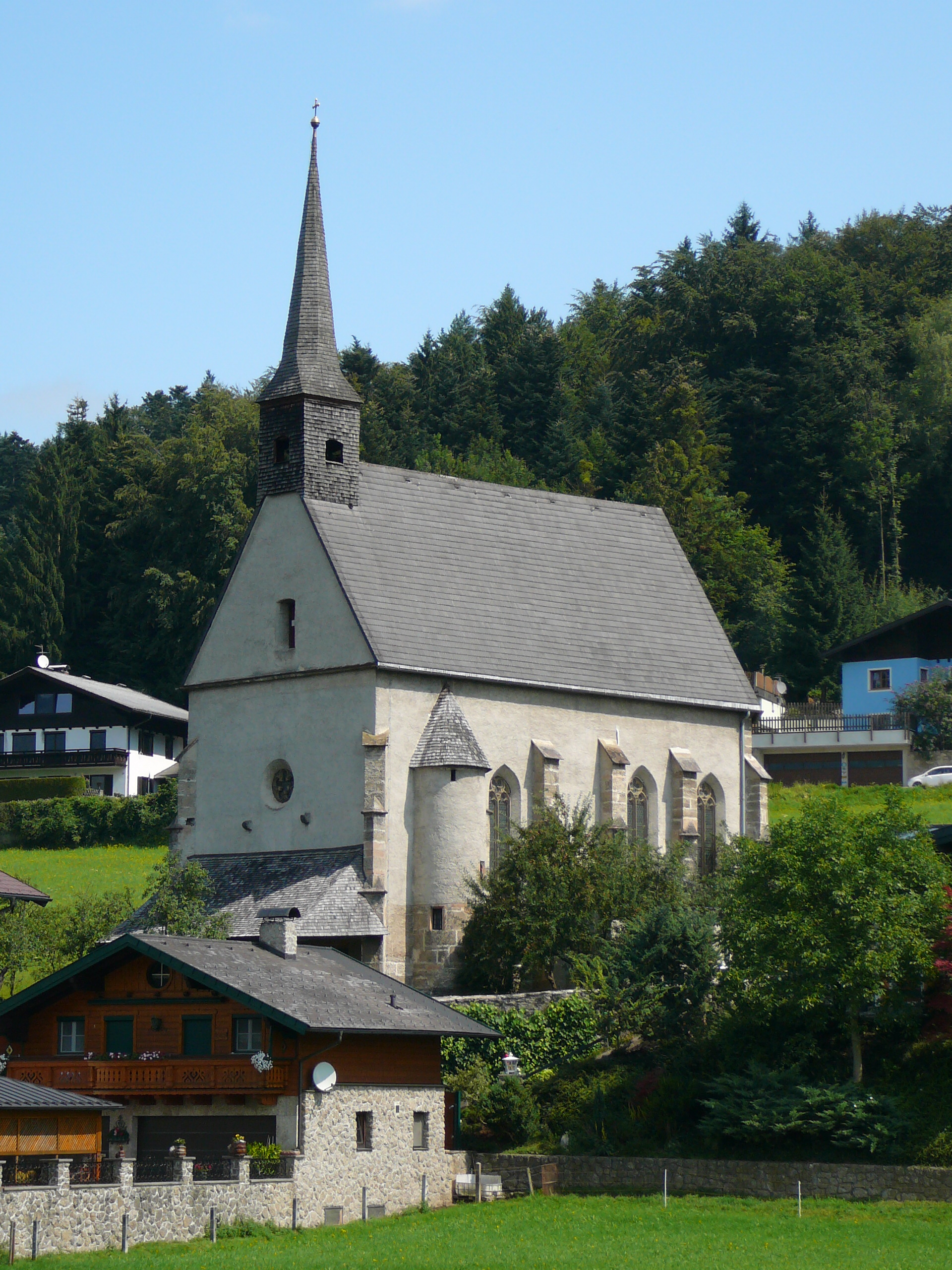 Church of St. Margarethen, Bad Vigaun, Austria